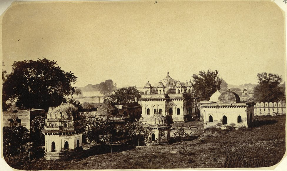 Photograph of the Gond Rajah's Tombs at Chandah in Maharashtra from the Allardyce Collection: Album of views and portraits in Berar and Hyderabad, taken by an unknown photographer in the 1860s. In the Central Provinces List of 1897, Henry Cousens wrote, "Chanda is a large walled town situated in the fort between the Jharpat nala [river] and the Erai river...The walls were built by the Gond Raja Khandkia Ballal Shah, the contemporary of Akbar...The only buildings of any consequence are some temples and the tombs of the later Gond kings, the last are plain and substantial buildings, but rather heavy in appearance. The gateways offer good specimens of Gond art, as they are ornamented with sculptures of the fabulous monster lion overpowering an elephant, which was the symbol of the Gond kings...The Gond tombs are eight in number, and belongs to...kings and queens...".